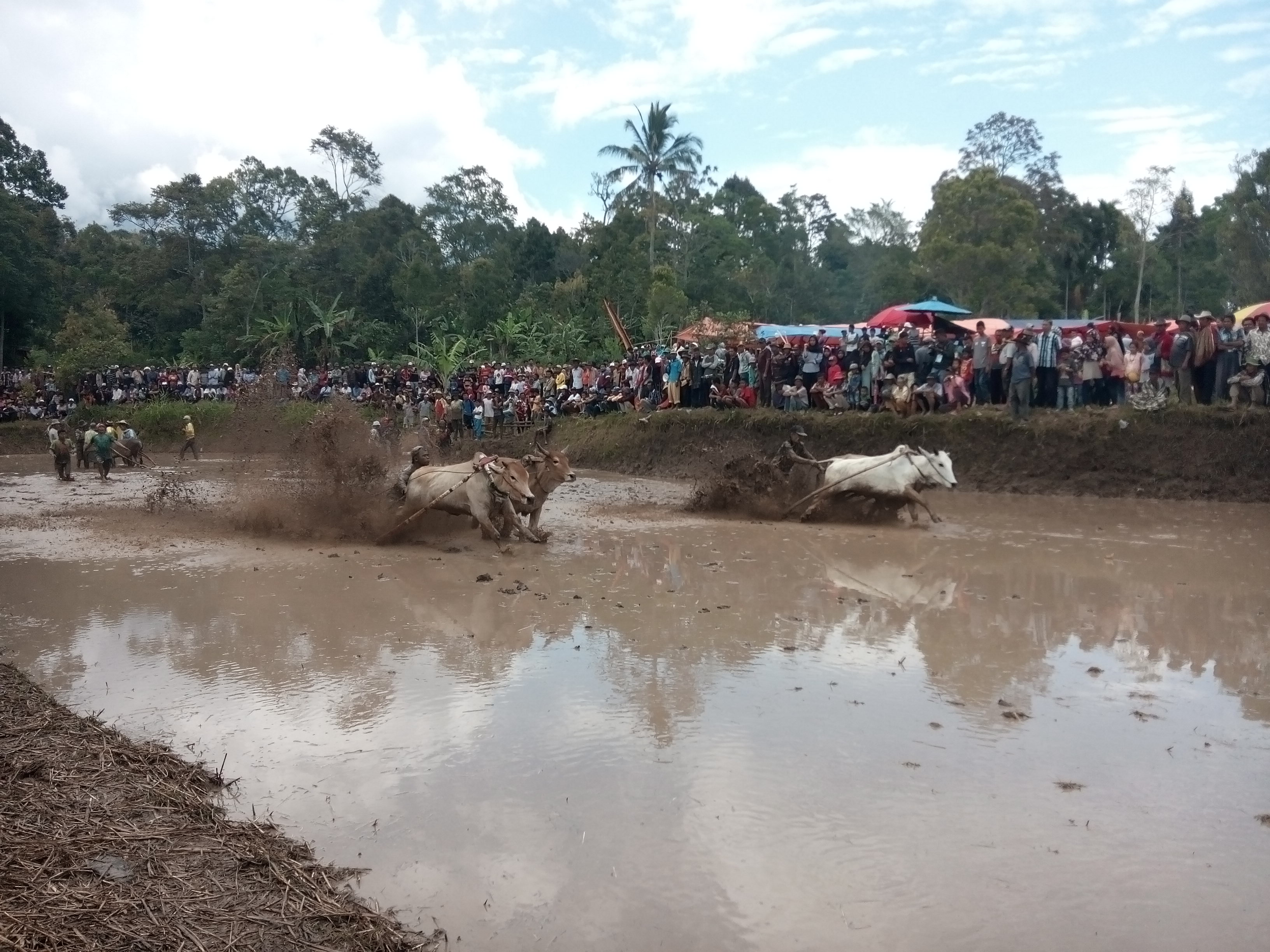 Expression error: Unrecognized word "pacu".